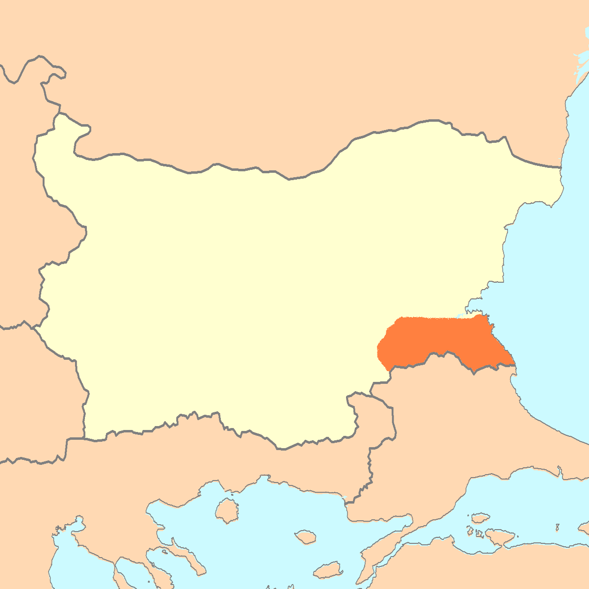 Strandja Sheep area of distribution